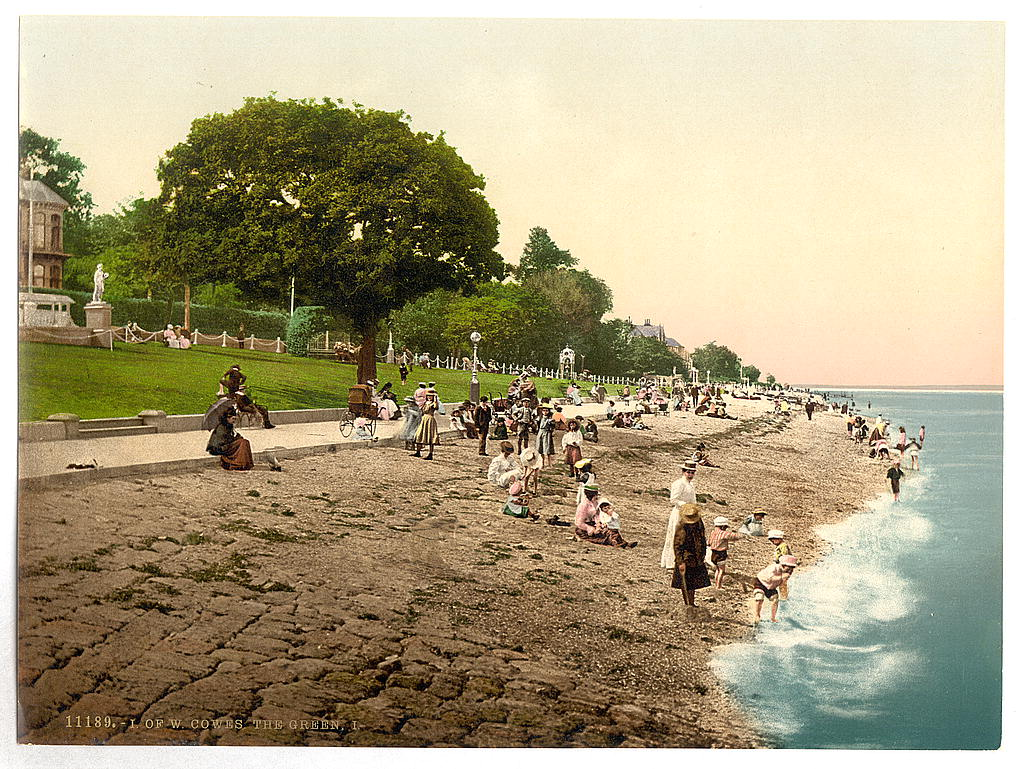 [Cowes, the green, I., Isle of Wight, England] [between ca. 1890 and ca. 1900]. 1 photomechanical print : photochrom, color. Notes: Title from the Detroit Publishing Co., Catalogue J--foreign section, Detroit, Mich. : Detroit Publishing Company, 1905. Print no. "11189". Forms part of: Views of the British Isles, in the Photochrom print collection. Subjects: England--Isle of Wight. Format: Photochrom prints--Color--1890-1900. Repository: Library of Congress, Prints and Photographs Division, Washington, D.C. 20540 USA, Part Of: Views of the British Isles (DLC) 2002696059 More information about the Photochrom Print Collection is available at Higher resolution image is available (Persistent URL): Call Number: LOT 13415, no. 987 [item]